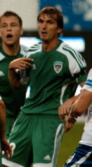 Vladimir Kuzmichyov as a player of FC Terek